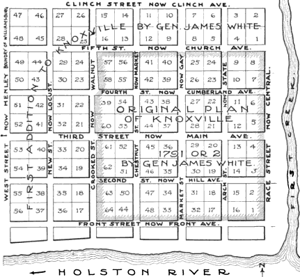 Map of early Knoxville, Tennessee, USA, showing the original 1791 plat of Charles McClung, and the subsequent 1795 expansion to the north and west. The "Holston" is now the Tennessee River.